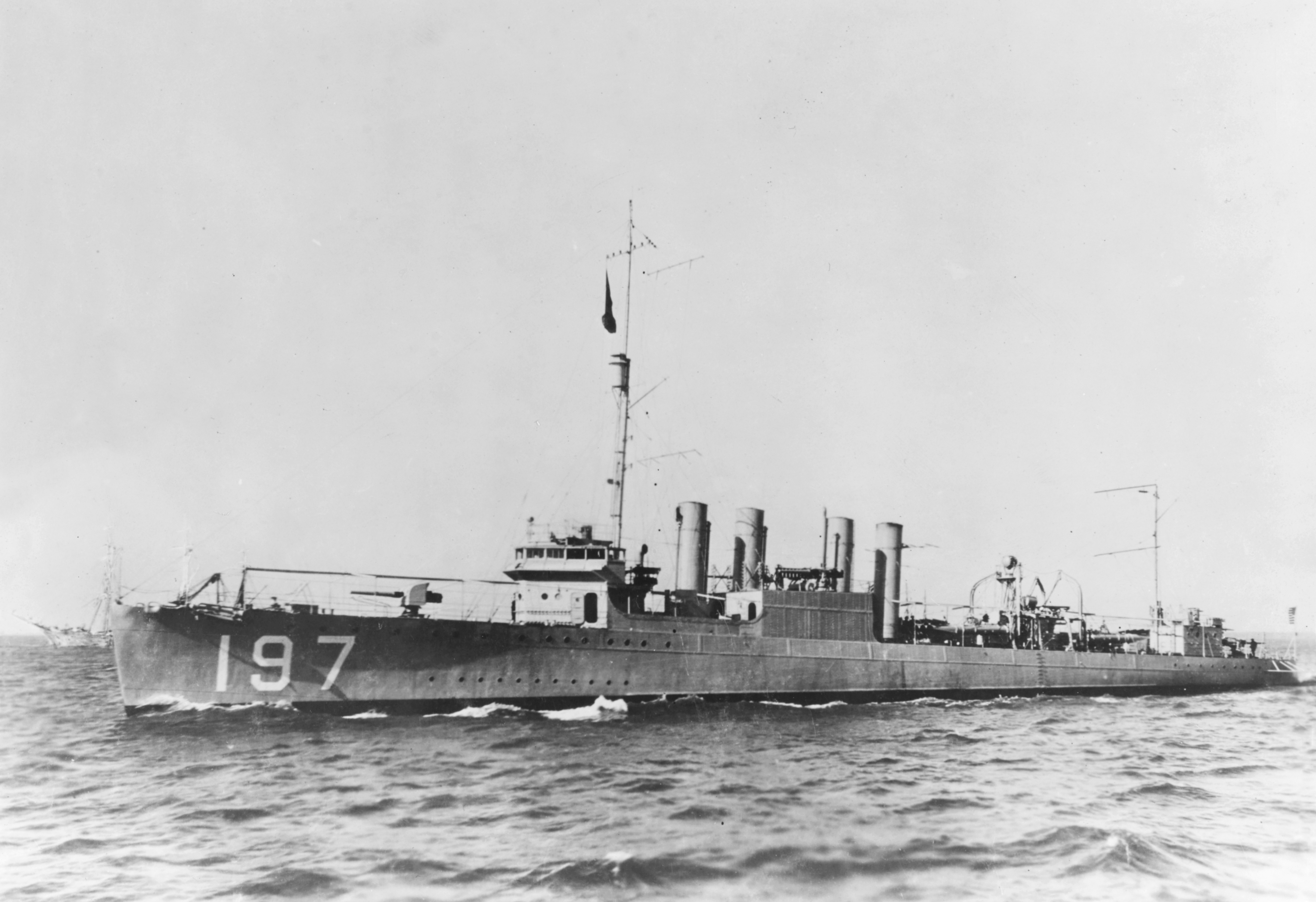 The U.S. Navy destroyer USS Branch (DD-197) underway, circa in 1920.